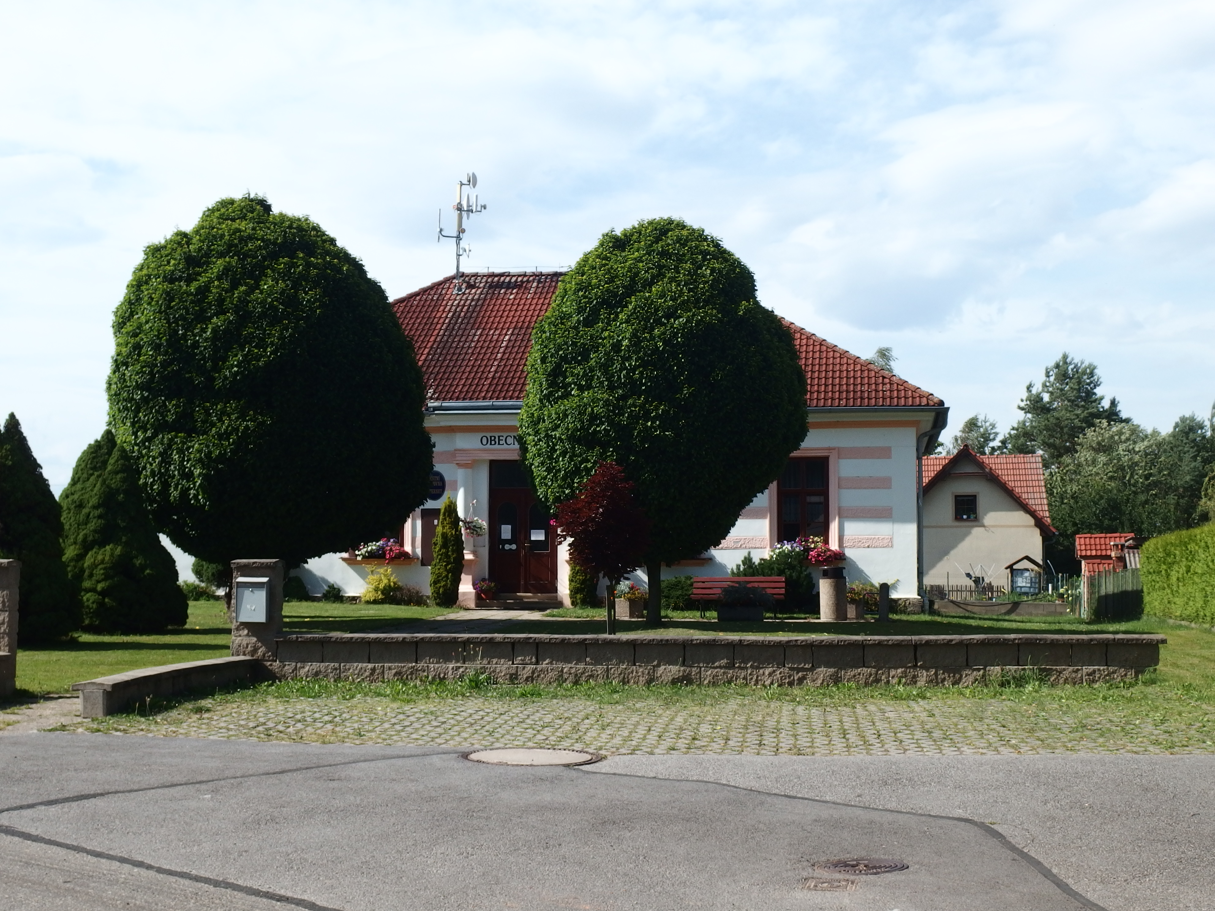 Mirkovice, Český Krumlov District, Czechia.